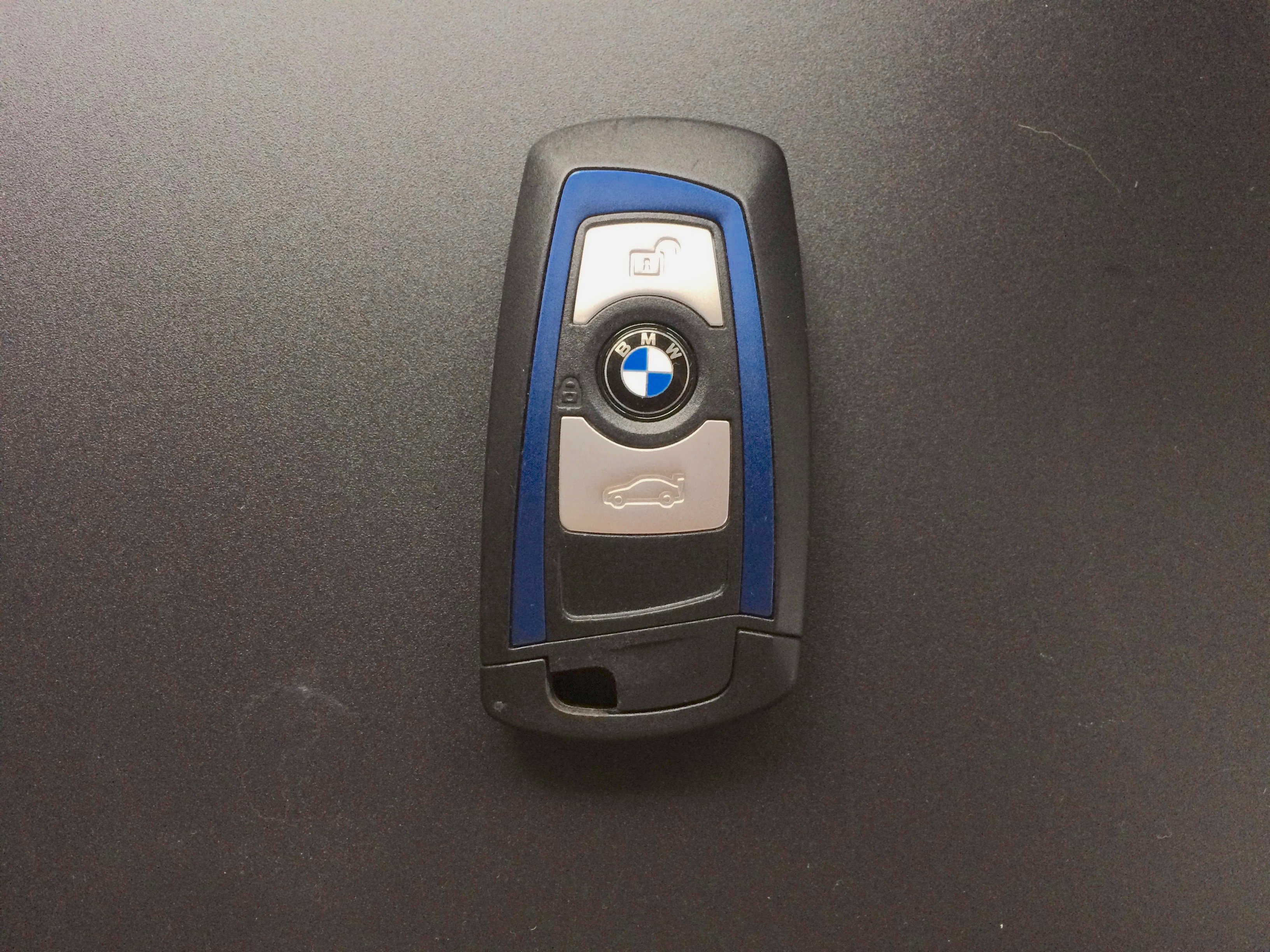 Real BMW car key.